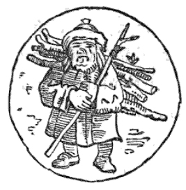 A caption above the image reads "The Man in the Moon". Image depicts apparently widespread moon folklore in Germanic Europe.